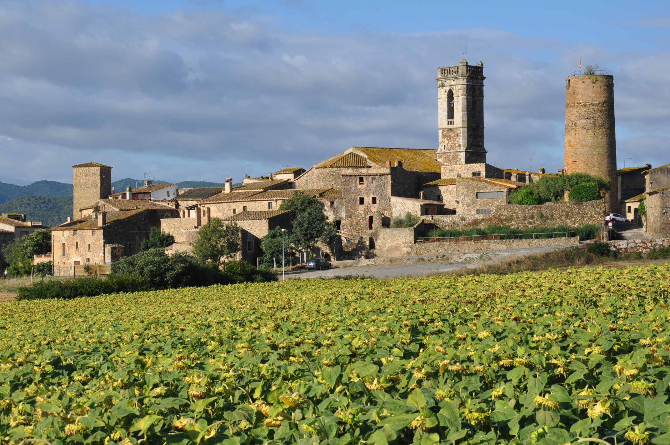 The village of Cruïlles (County of Baix Empordà, Catalonia, Spain) lies 2.8 km west of La Bisbal d'Empordà.